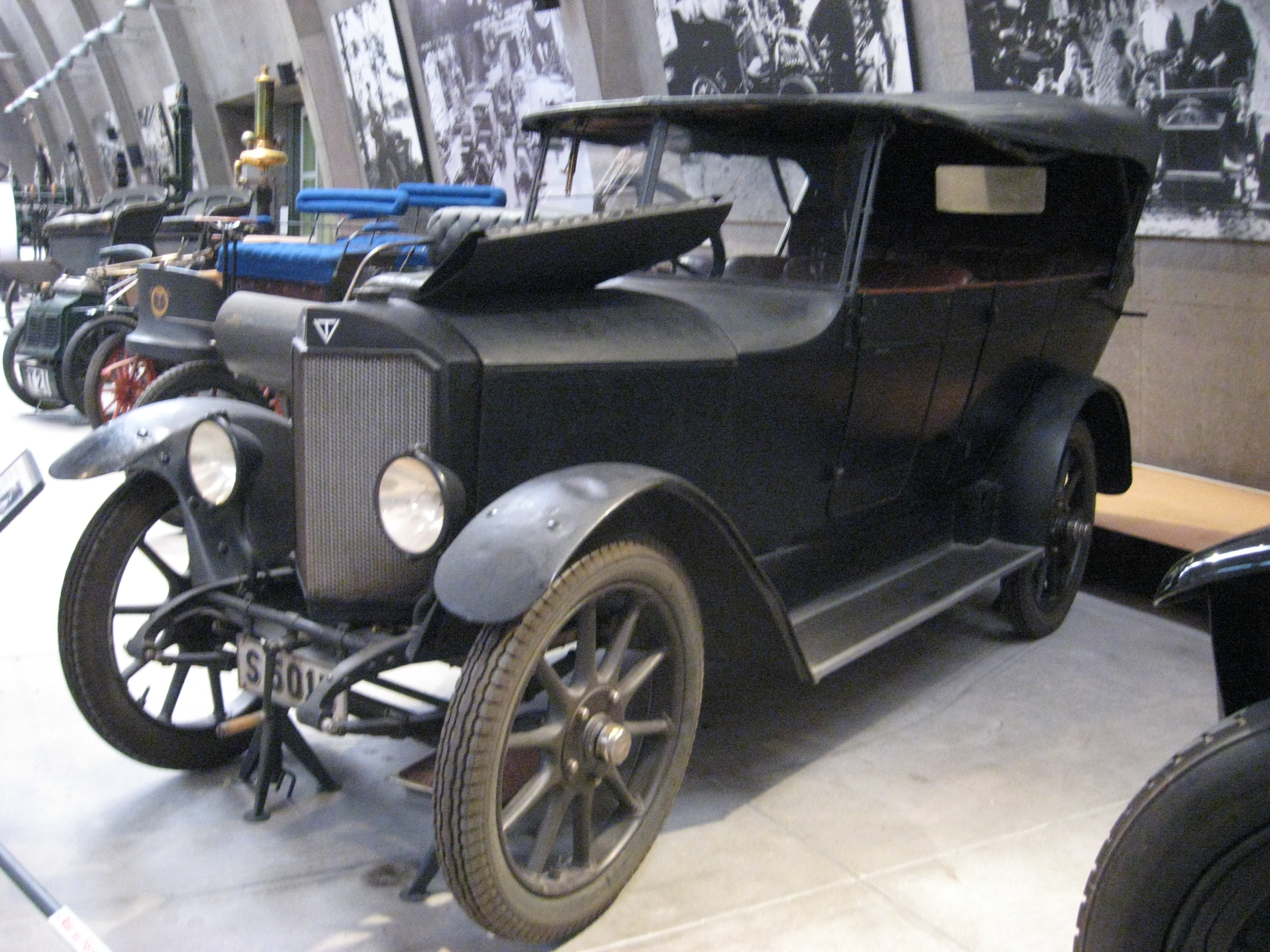 1924 Thulin Type A